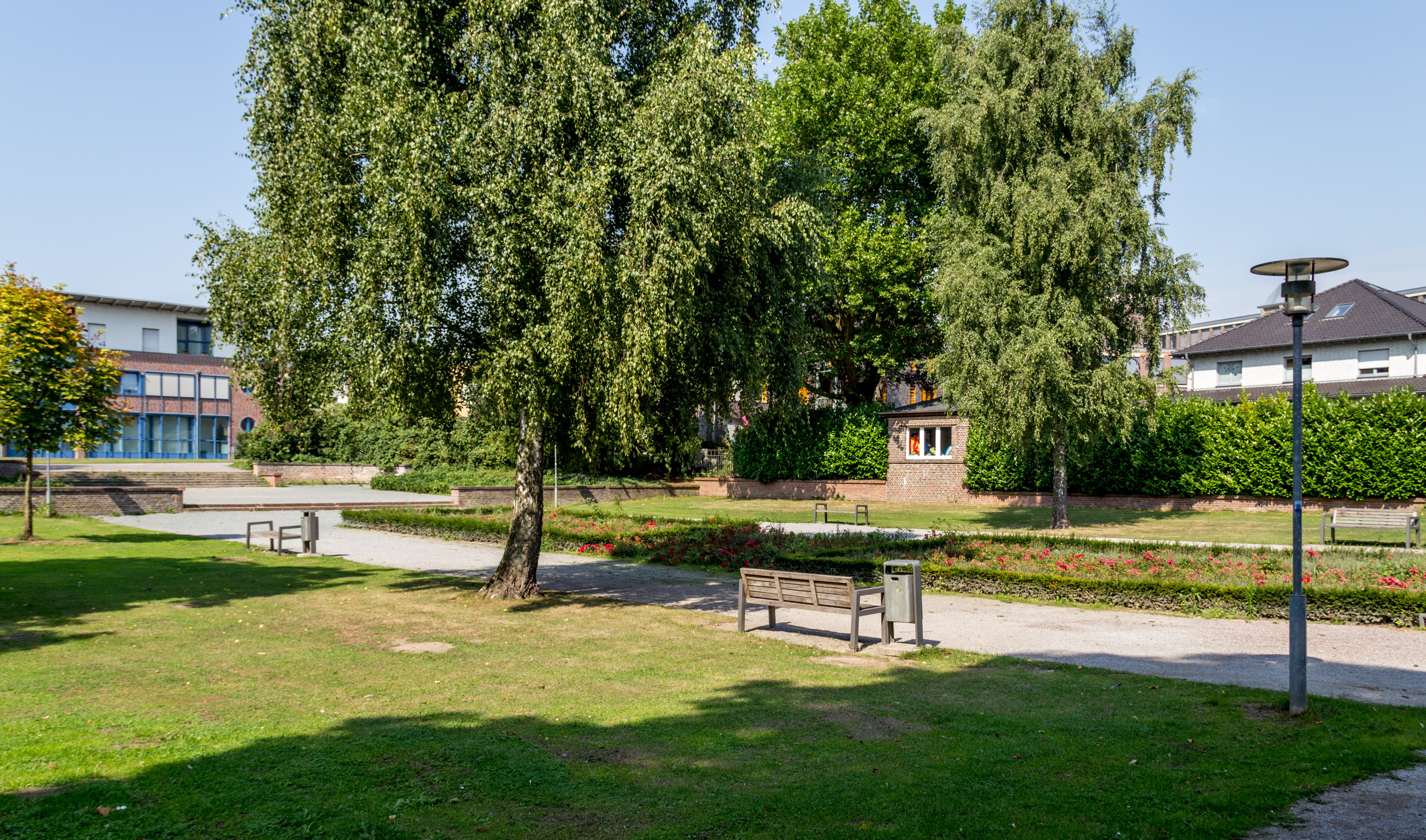 Bendixpark in Dülmen, North Rhine-Westphalia, Germany